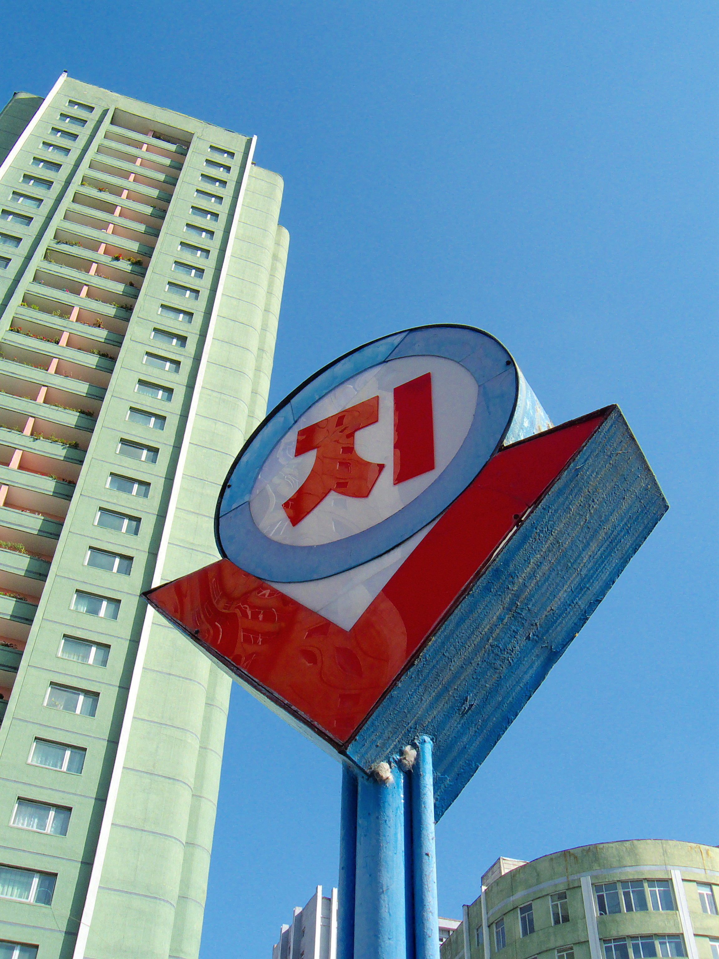 Pyongyang Metro, operating since 1973, is the deepest metro in the world, at some 110m underground. The purpose for building it so deep is so that the stations can function as bomb shelters when needed. The stations are not named by location but by revolutionary terminology such as Puhung (Reconstruction), Yonggwang (Glory), Hwanggumbol (Golden Fields), Pulgunbyol (Red Star) and Chonru (Comrade).